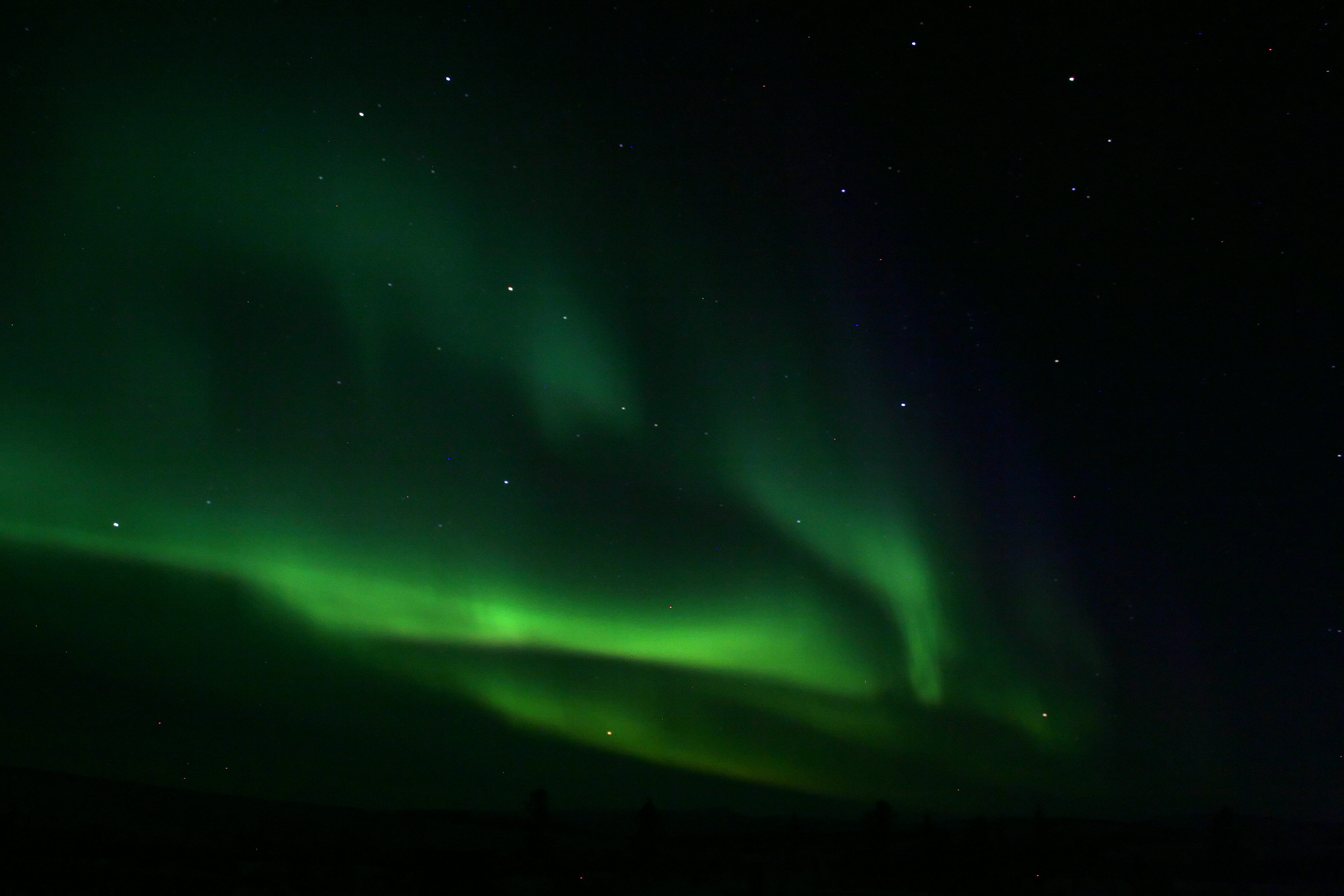 Northern lights at the Arctic Circle.